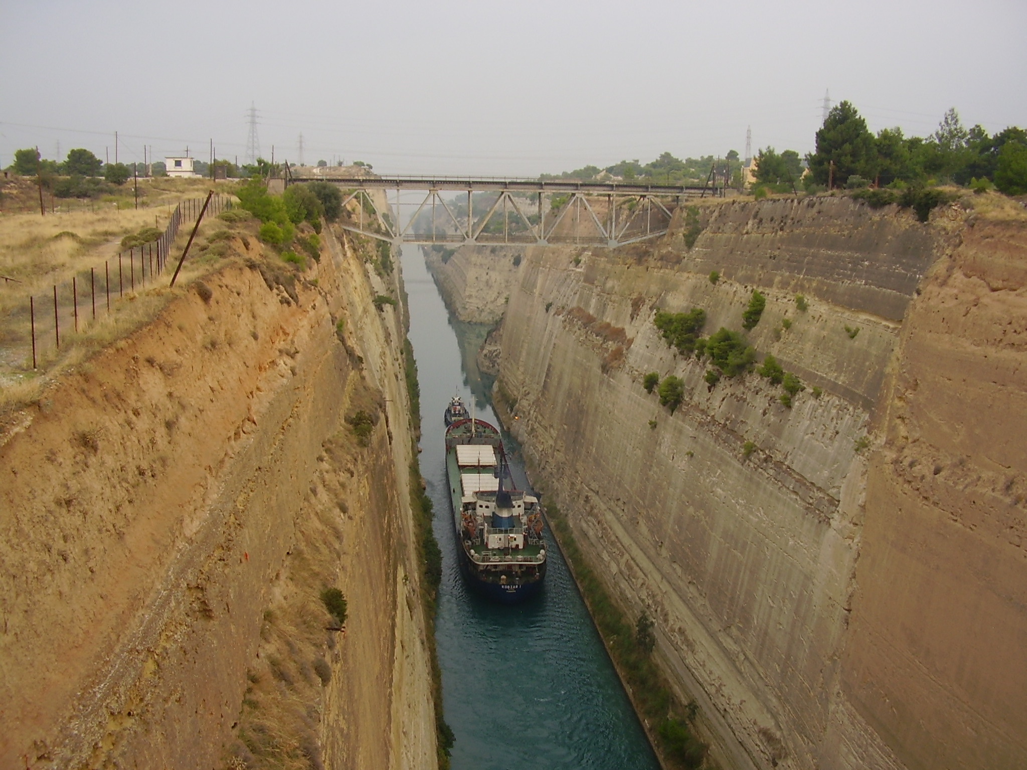 Vessel being tugged through Corinth canal, looking north, from the road bridge in the middle.